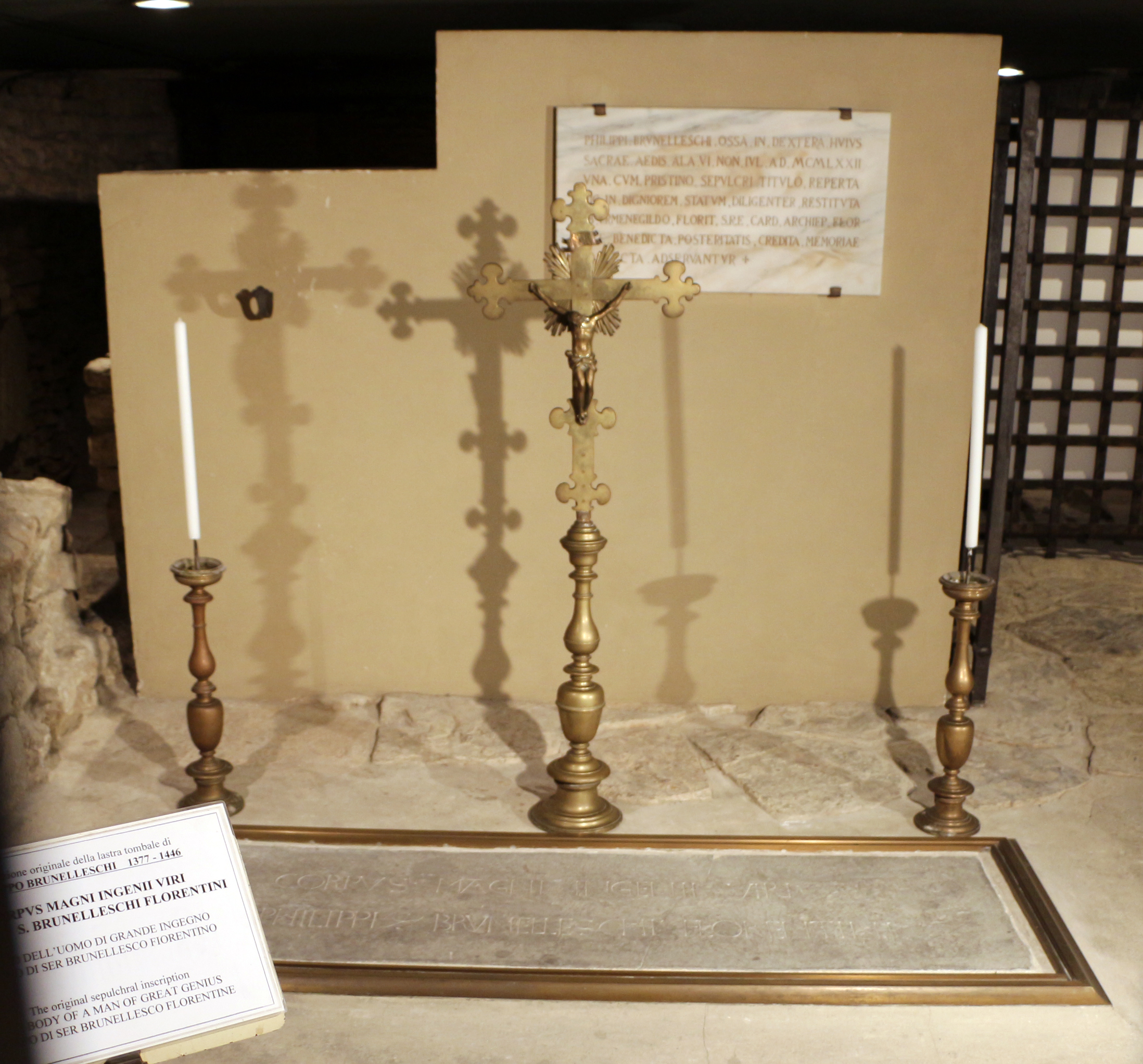 Santa Reparata (Florence)